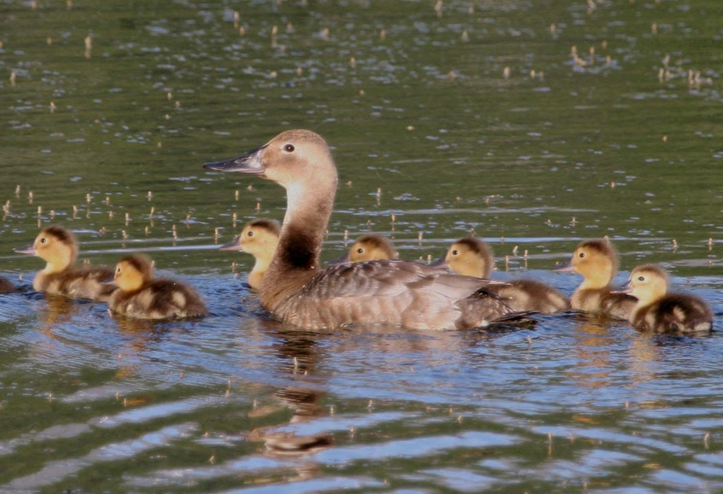 Canvasback brood (Aythya valisineria) Canvasback duck and her brood at the Anchorage Coastal Wildlife Refuge, Potter's Marsh, Anchorage, AK, USA